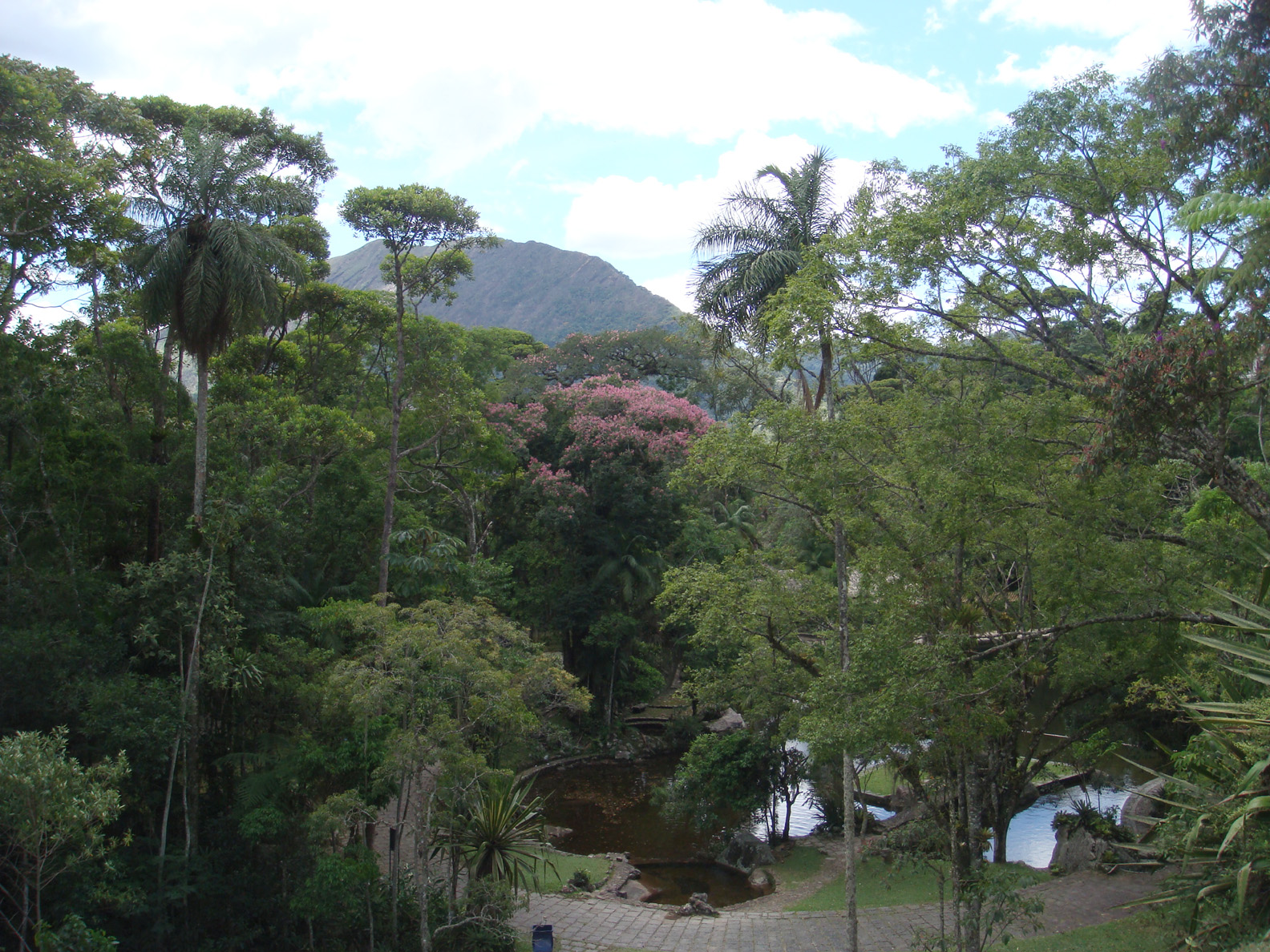 View of Serra dos Órgãos National Park (Parque Nacional da Serra dos Órgãos), Teresópolis, Brazil